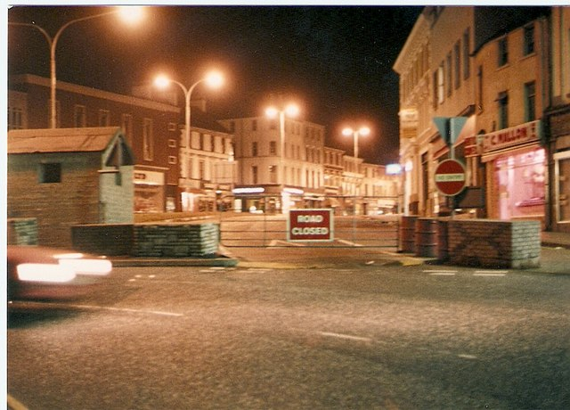 High Street Portadown at night Taken from the top of Castle Street close to Woolworth's store which is insde the barriers on right, note the barriers which were installed during the troubles. The town centre was closed to all traffic from 6pm to 7am.